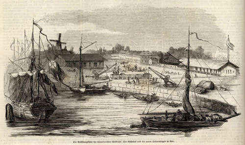 Leer, harbor and station